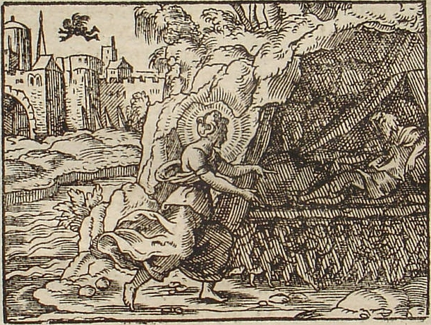 Iris visits the Sleep. Engraving by Virgil Solis for Ovid's Metamorphoses Book XI, 583-649. Fol. 148r, image 11.